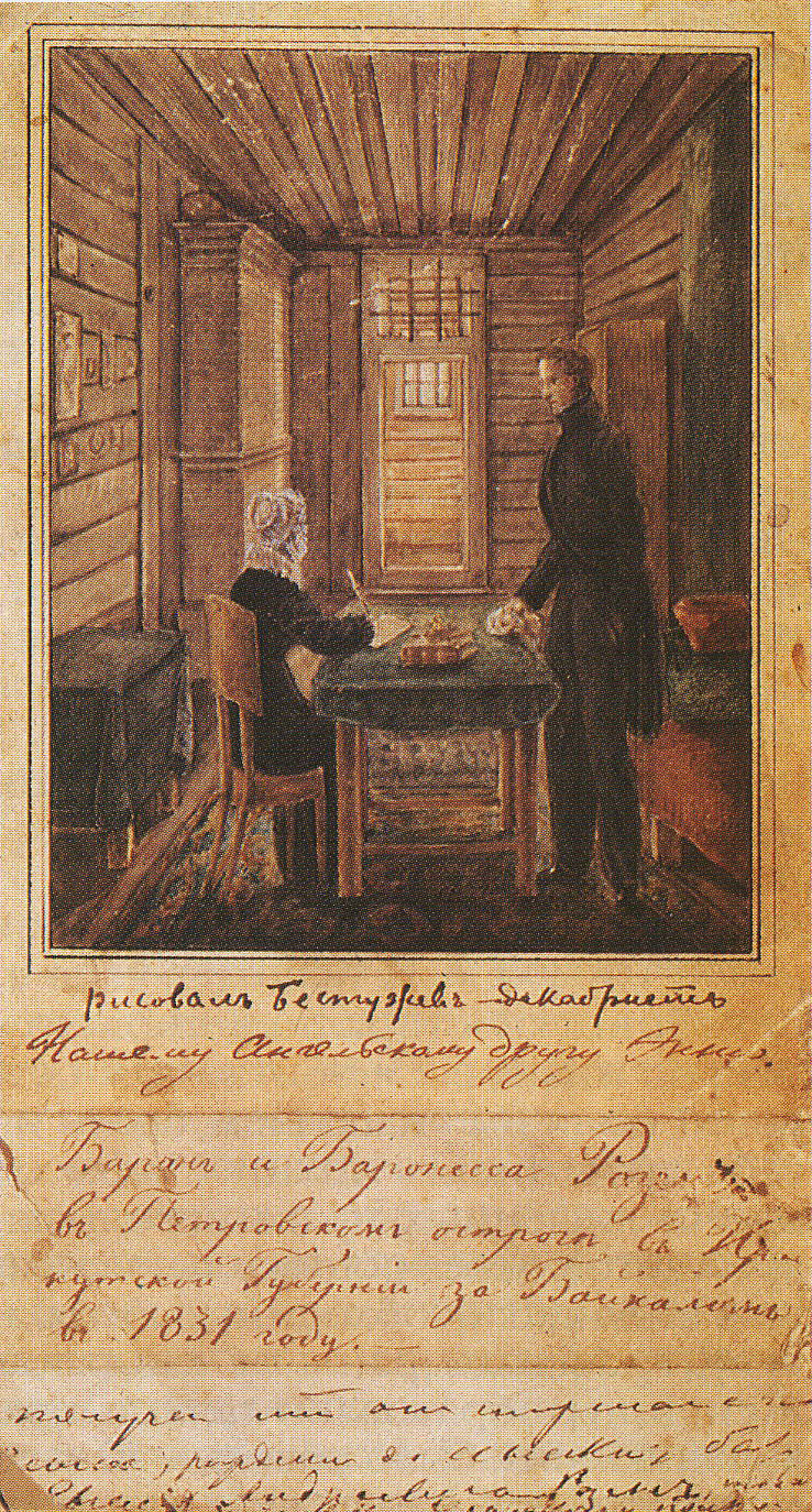 Bestuzhev N. Andrey Rosen with the wife in prison. 1830.